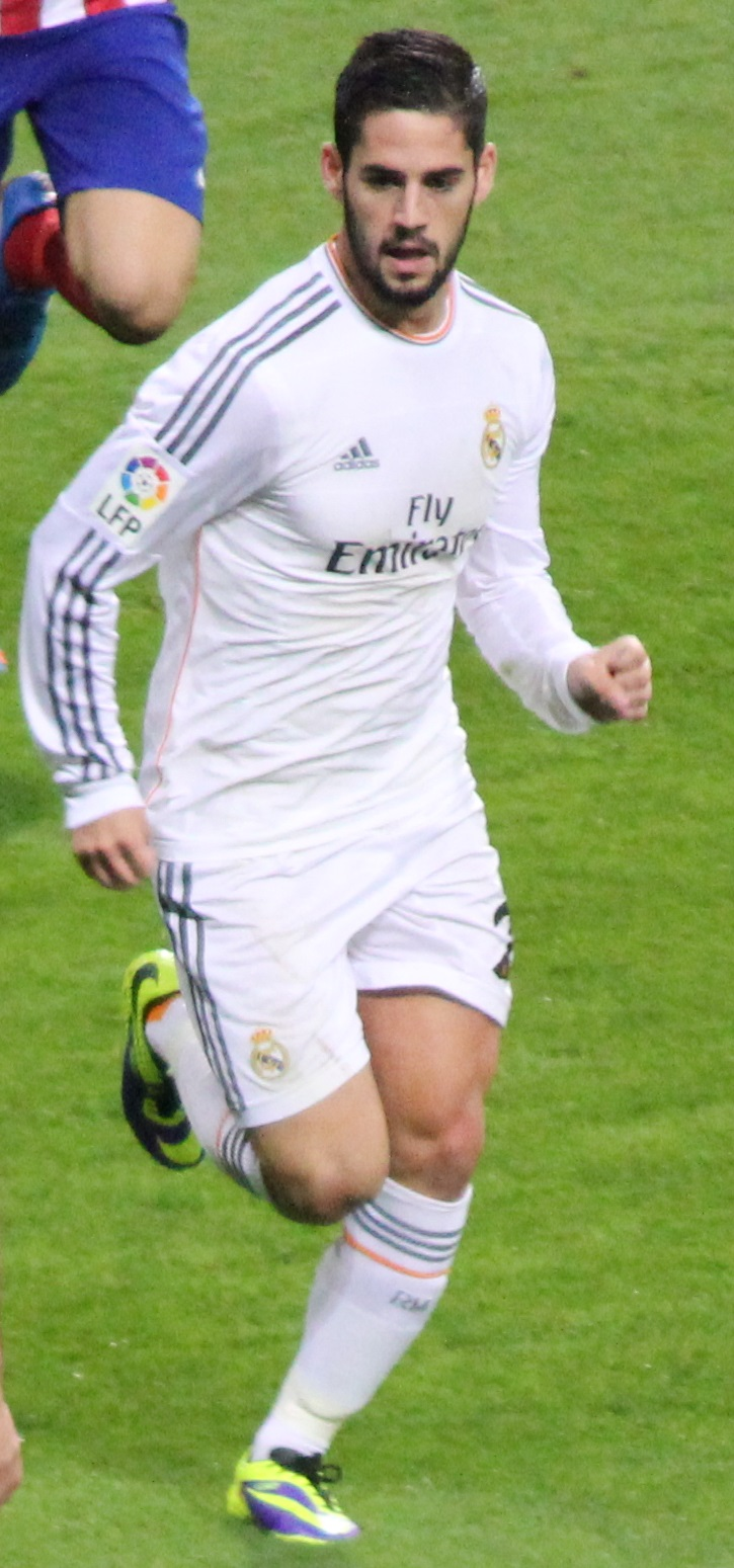 Another cropped version of , which I took.